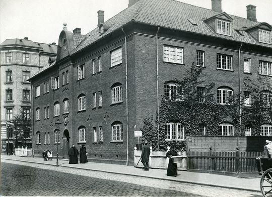 Abel Cathrines Stiftelse in Vesterbro, Copenhagen, Denmark